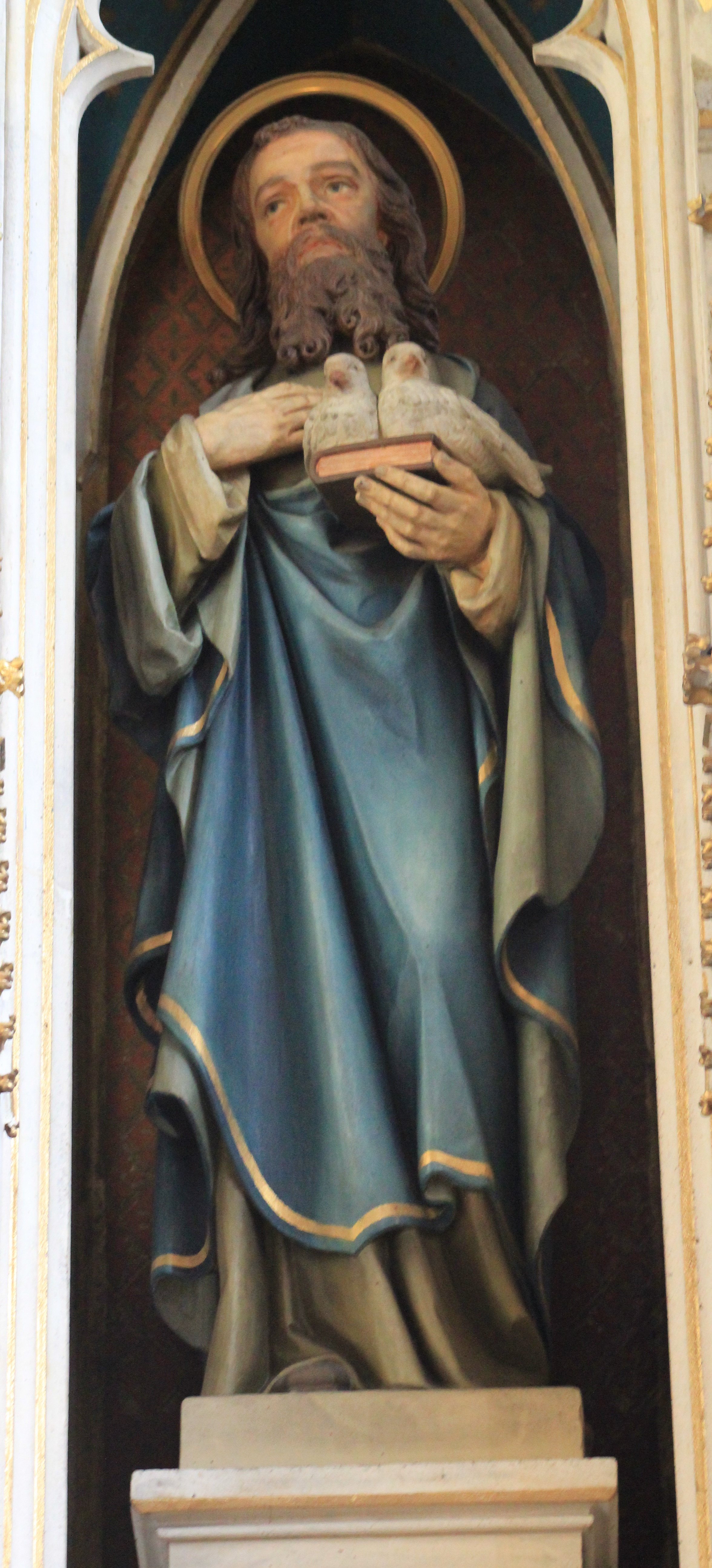 Dominican-Order-church in Friesach: Main altar: Joachim